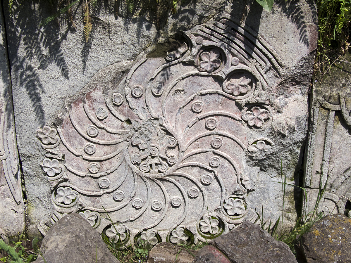 Teghenyats Monastery, Eternity sign, Armenia